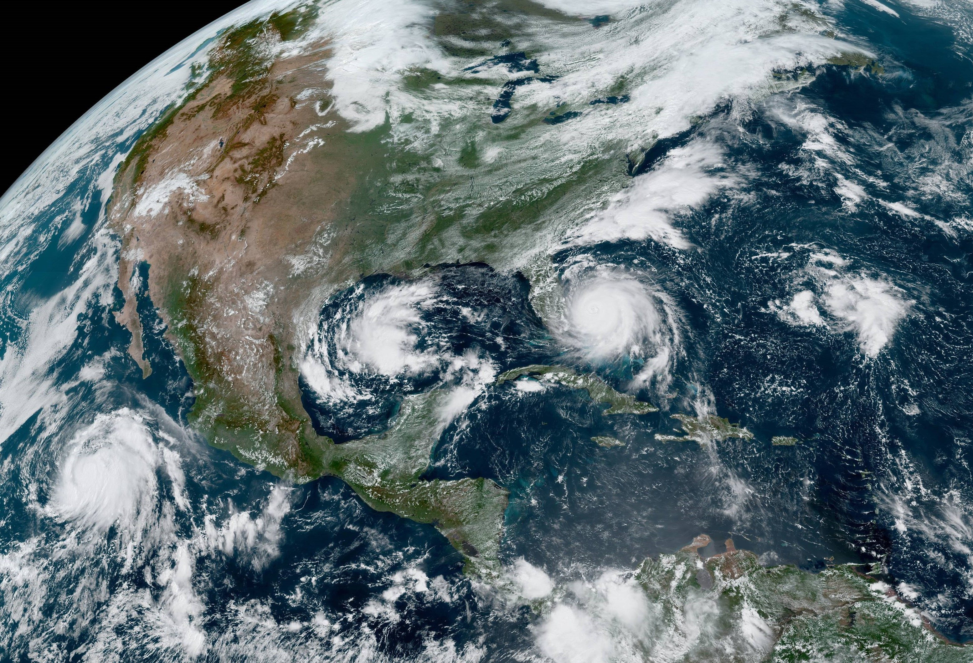 Hurricane Dorian, Tropical Storm Fernand and Gabrielle in the Atlantic while Hurricane Juliette is visible in the western Pacific on 2019-09-02 1700Z.